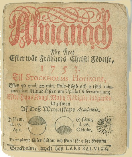 Swedish almanack of 1753, the year when Sweden adopted the Gregorian calendar.